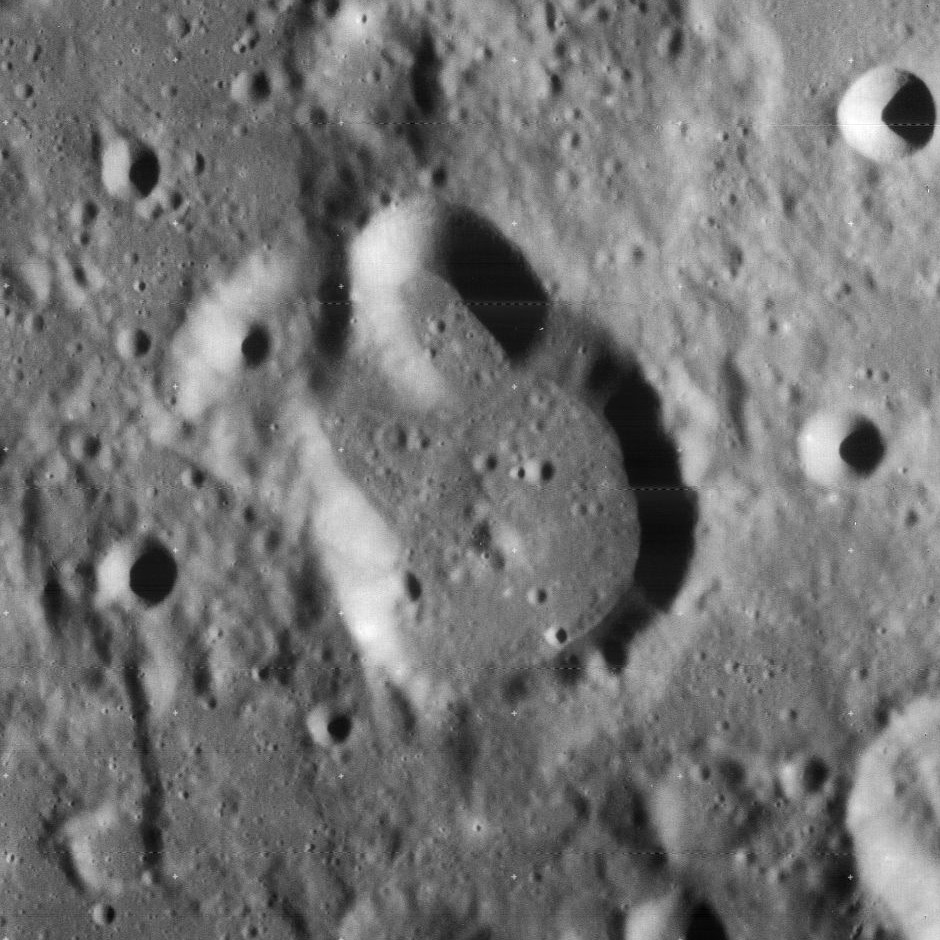 Ritchey, on the moon.